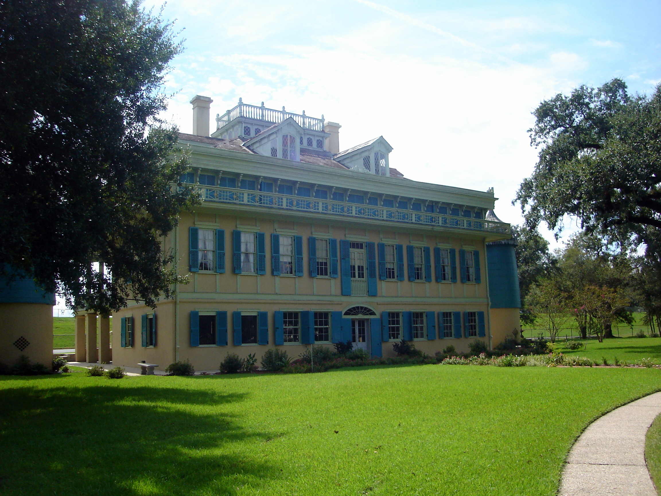 Rear view of the plantation house, San Francisco, in Garyville, Louisiana. It was built from 1853-1855 by Edmond Bozonier Marmillion.